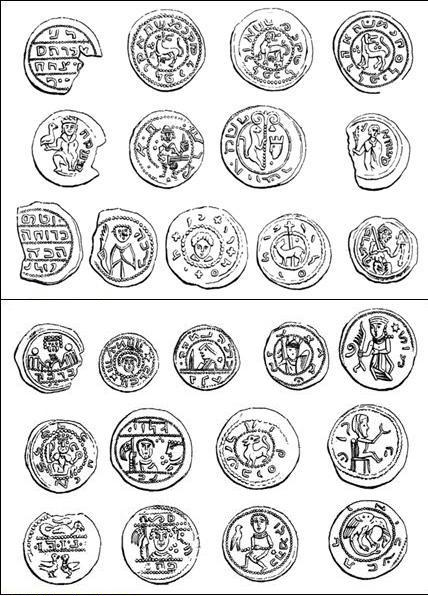 Early medieval coins from Poland bearing Hebrew language inscriptions. From the 1901-1906 Jewish Encyclopedia, now in the public domain.